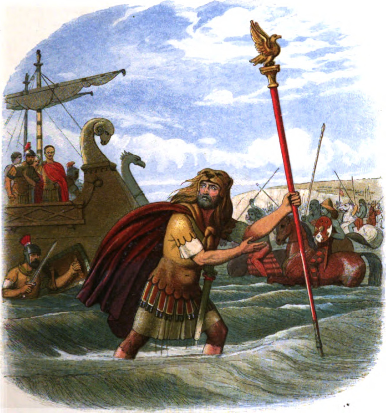 The Standard Bearer of the Tenth Legion jumps from his ship and marches up the shores of England, leading the Roman invasion.